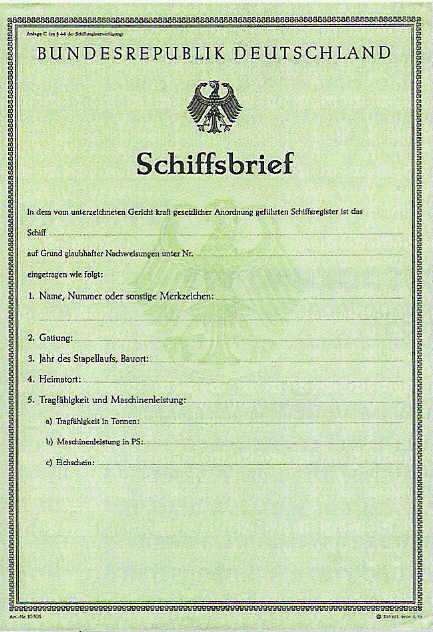 Schiffsbrief